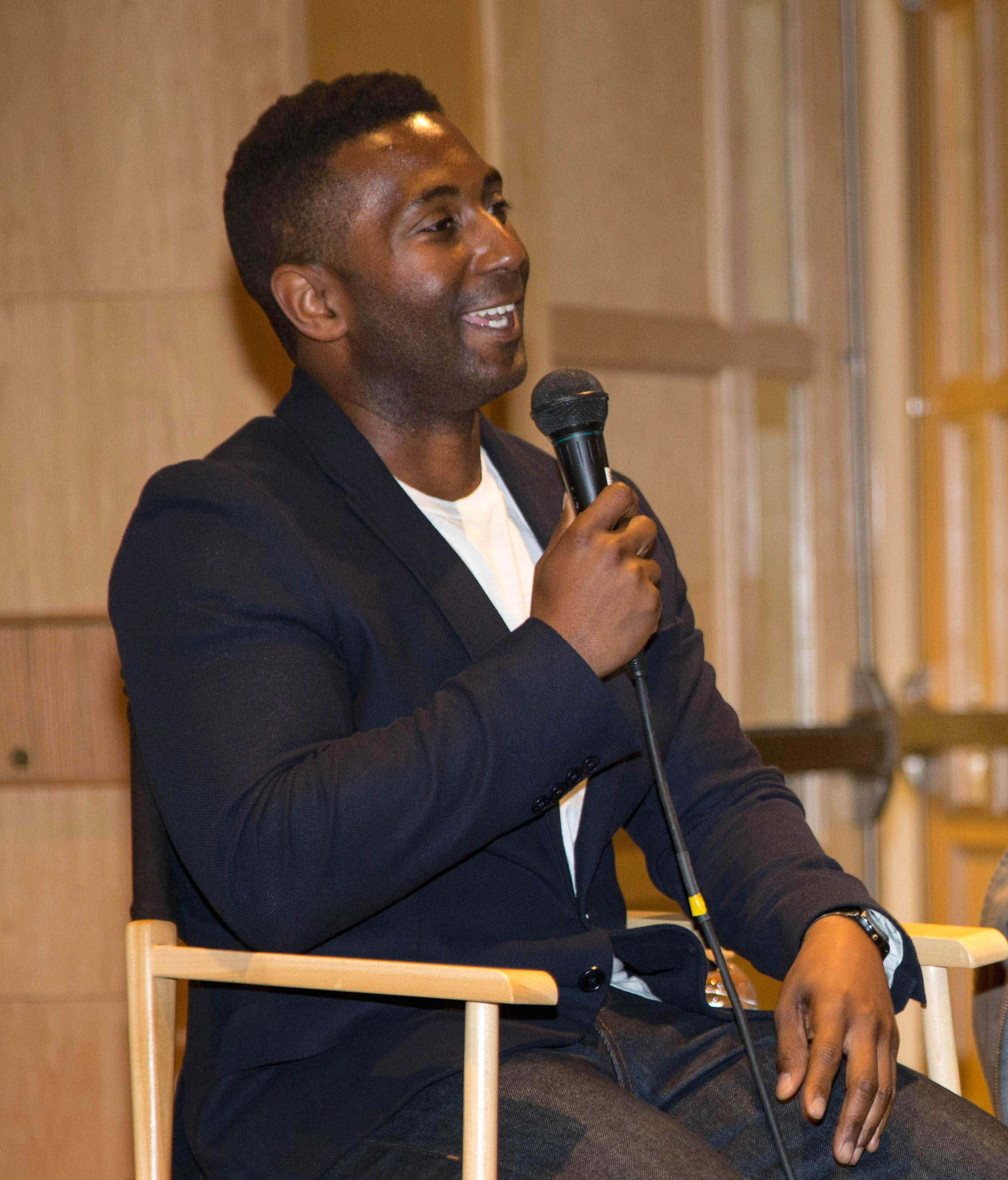 Wesley Morris during a 2013 panel discussion on the topic of "Race and Film", during the Montclair Film Festival